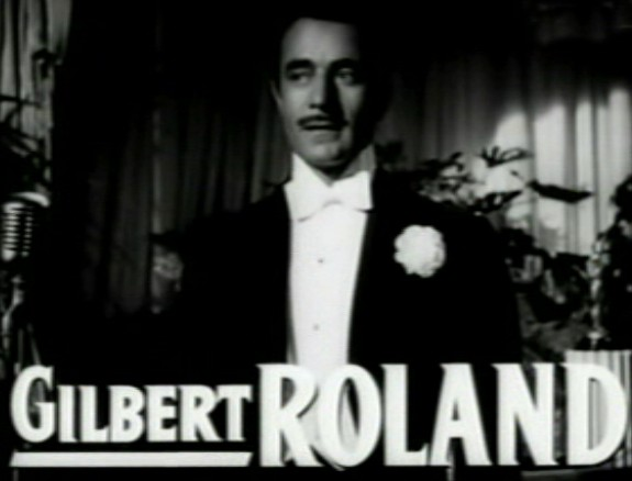 Cropped screenshot of Gilbert Roland from the trailer for the film The Bad and the Beautiful (1952).